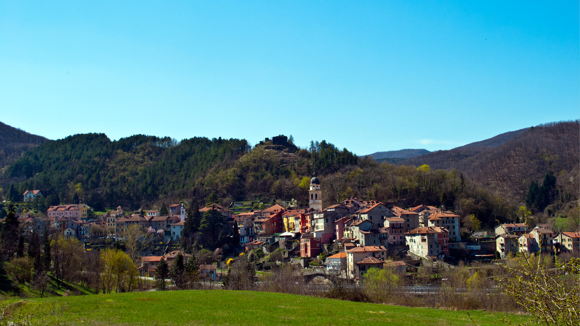 A view of the town of Voltaggio, Province of Alessandria, Piedmont, Italy